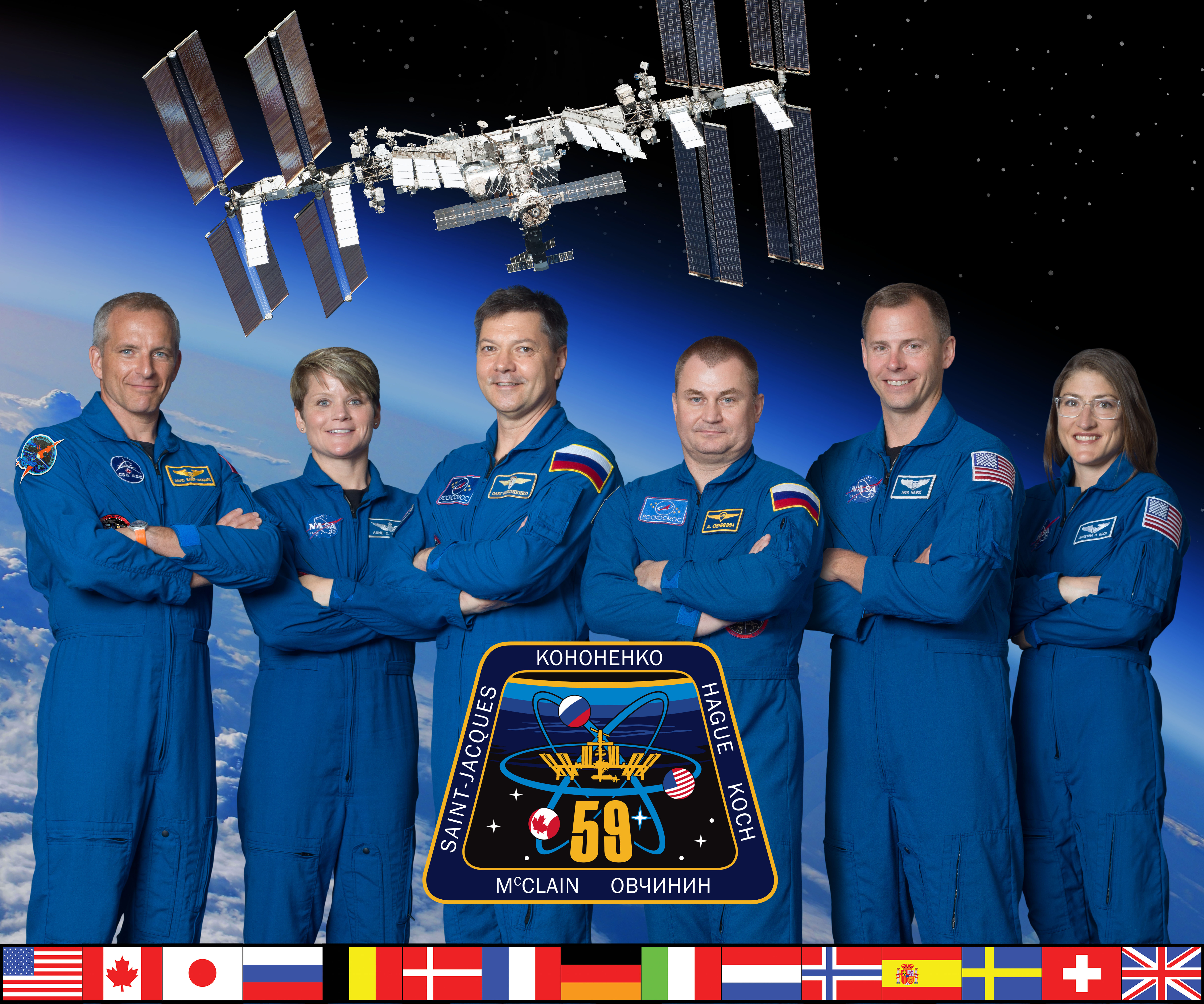 The official Expedition 59 crew portrait with (from left) astronauts David Saint-Jacques of the Canadian Space Agency and Anne McClain of NASA; cosmonauts Oleg Kononenko and Aleksey Ovchinin of Roscosmos; and NASA astronauts Nick Hague and Christina Koch.